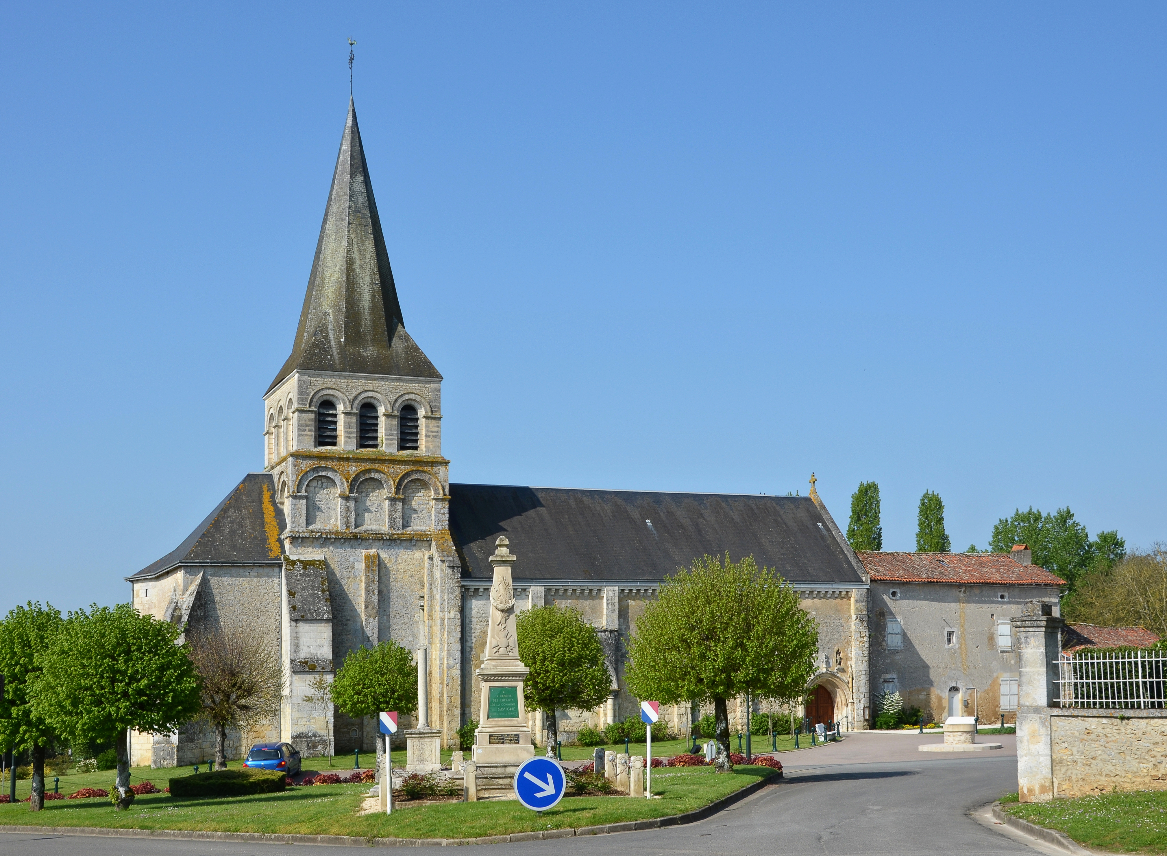 Church (12th-15th centuries) and War memorial, Savigné, Vienne, France.